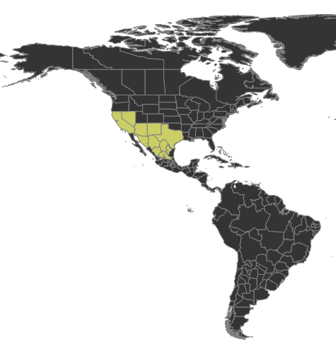 Distribution of Novomessor albisetosus in North America